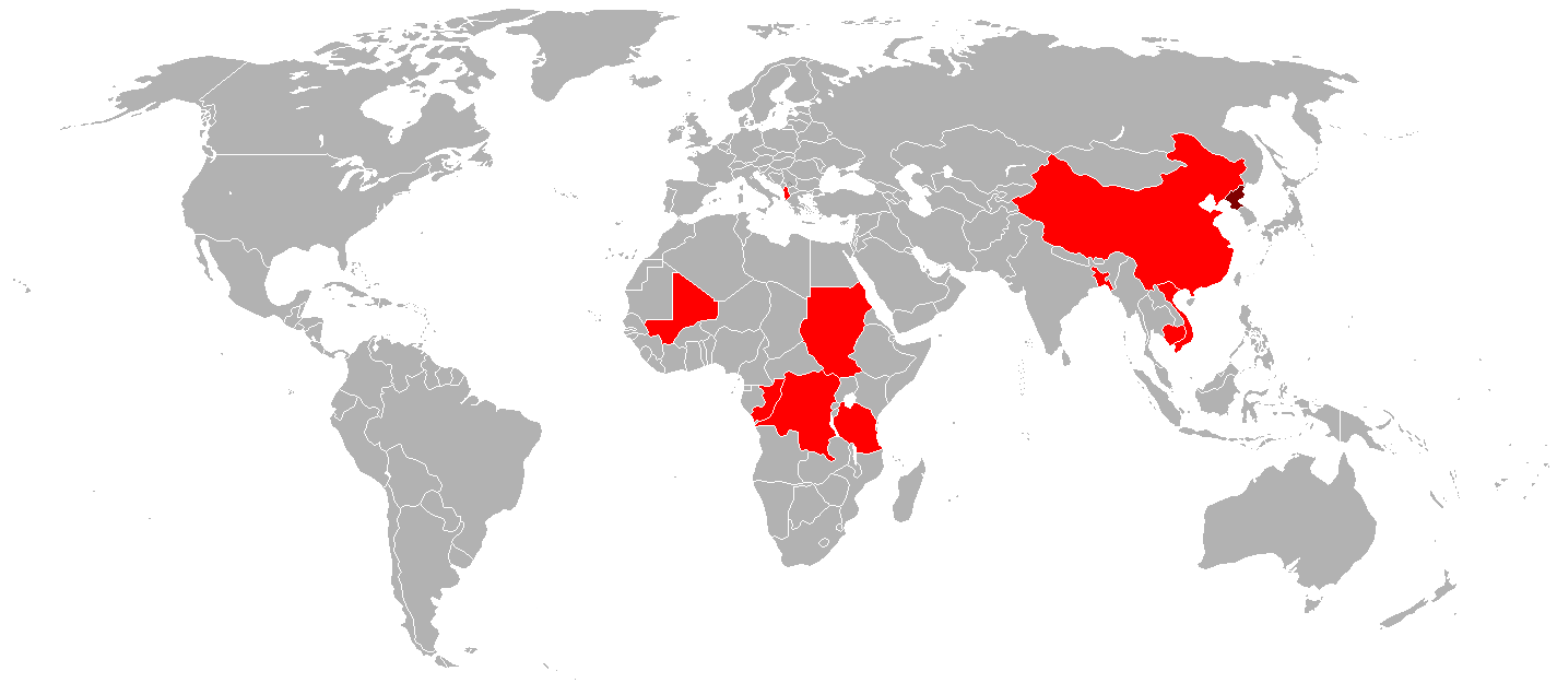 Operators of the Type 62 tank. Current operators in red, former operators in dark red.